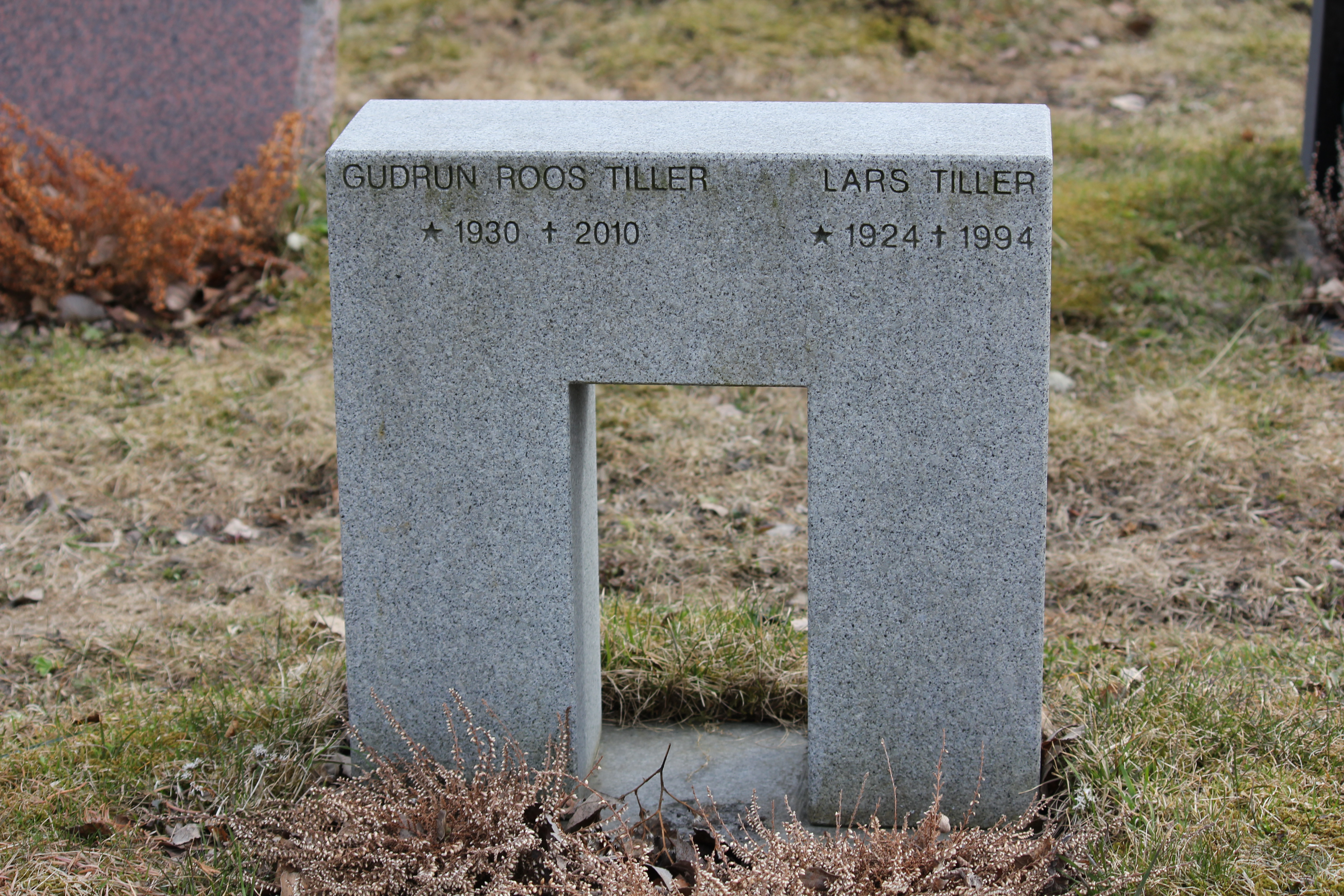 the headstone of the Norwegian artist Lars Tiller and his Swedish wife, also an artist, Gudrun Roos Tiller.